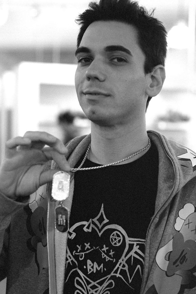 Adam Goldstein in December 2008.